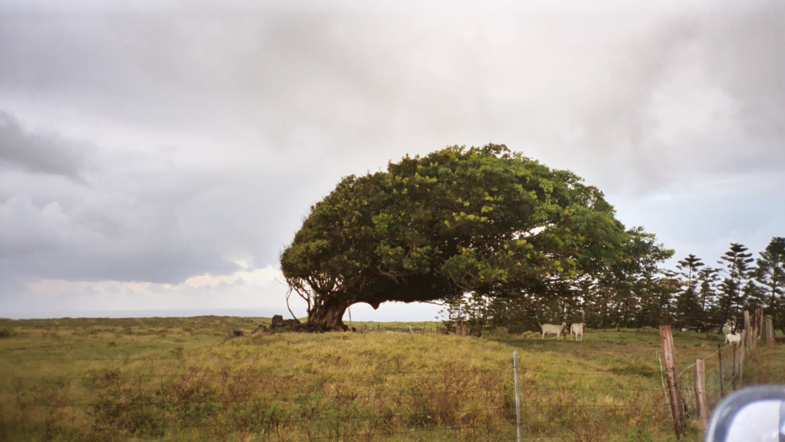 Windswept "Bent Tree" on Big Island, Hawaii